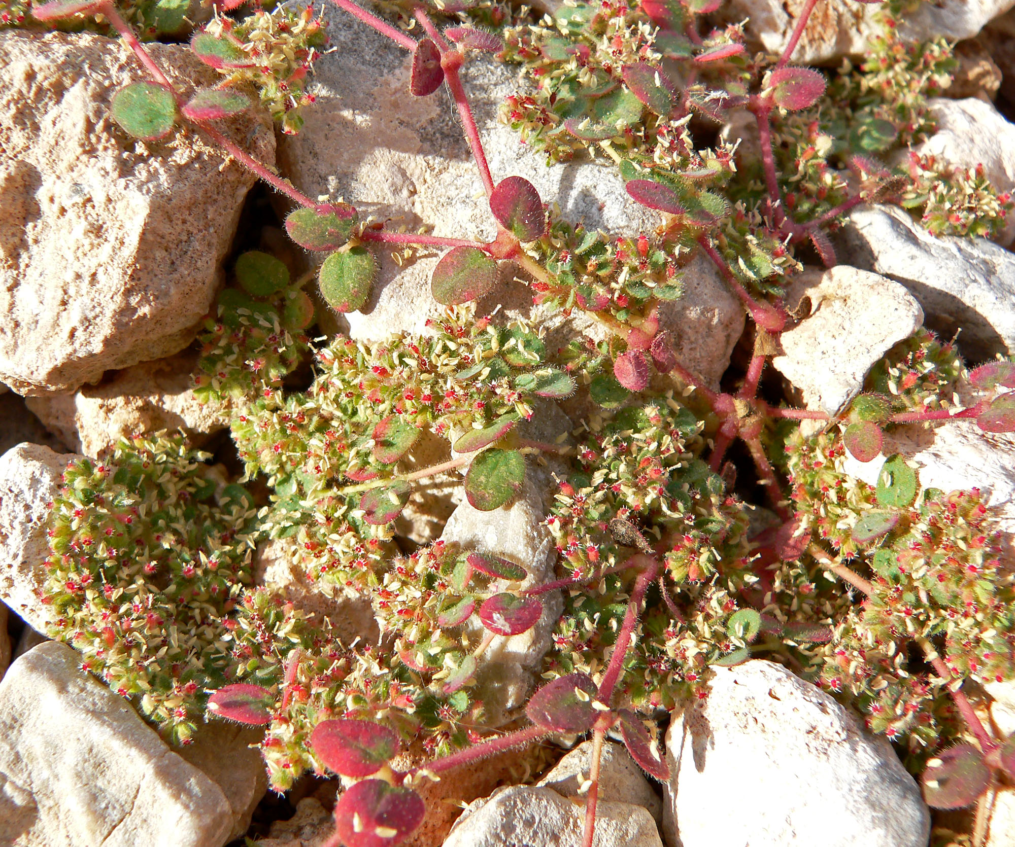 Euphorbia setiloba in Red Rock Canyon, Spring Mountains, southern Nevada (seen in wash just north of Hwy 159 and east of Calico Basin turnoff, location not recorded in the Spring Mountains checklist)